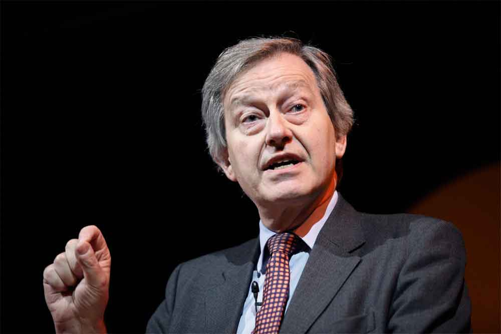 Stephen Dorrell MP and the NHS Confederation annual conference and exhibition 2011 in Manchester, England.